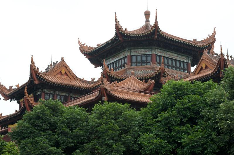 Part of the Zhaojue Temple complex.